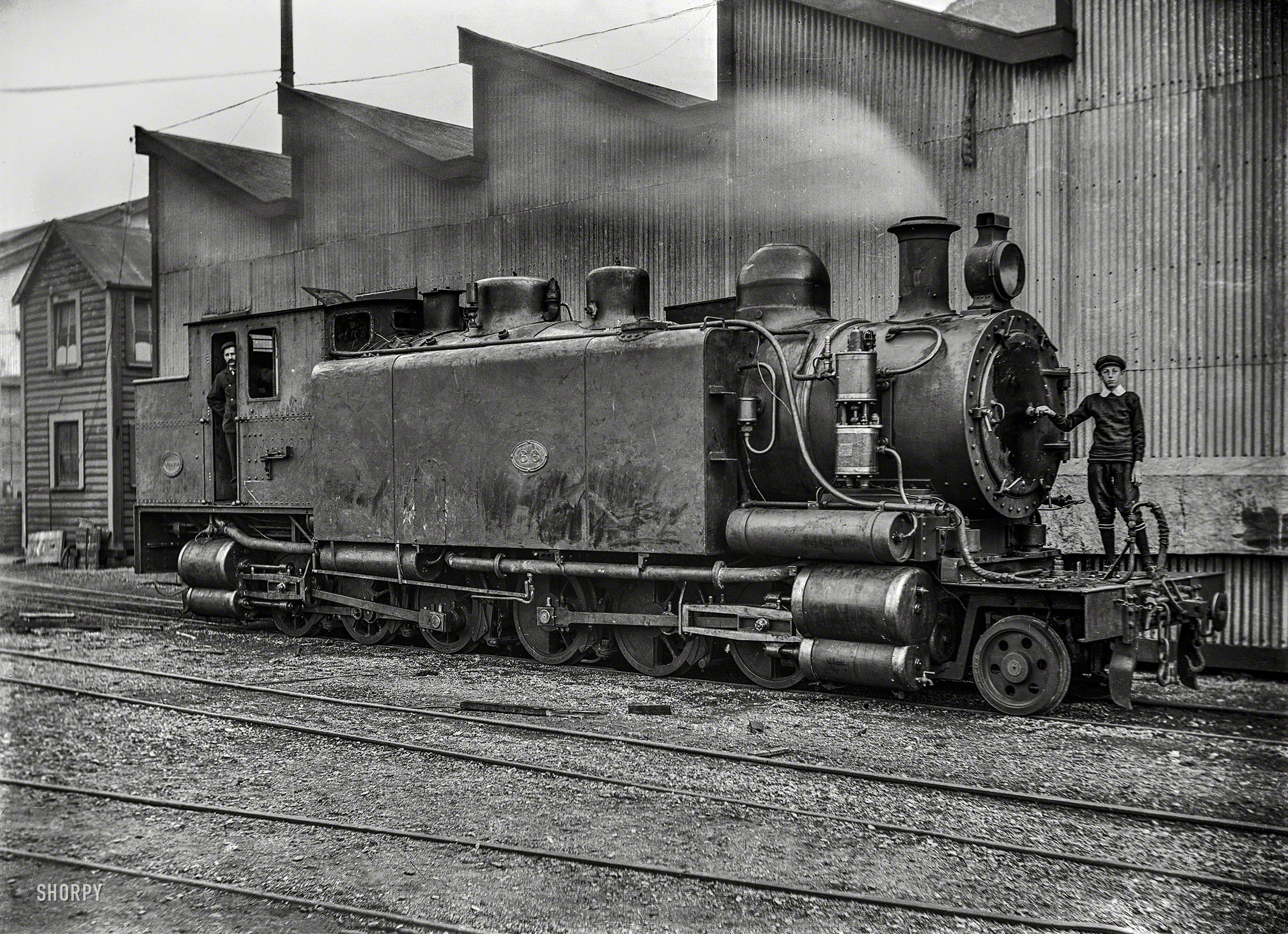 "E class locomotive, E 66, at the Petone Railway Workshops, with William Godber standing on the front. Known as 'Pearson's Dream,' designed by G.A. Pearson, and built in 1905 for use on the Rimutaka Incline; written off in 1917." Glass negative by A.P. Godber. New Zealand circa 1905.